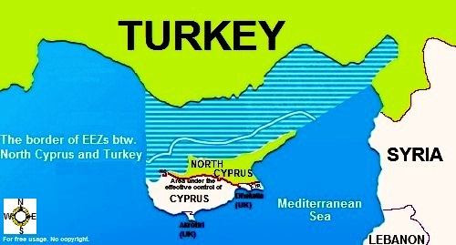 The EEZ border between North Cyprus (TRNC) and Turkey according to the Agreement in New York on 21.09.2011